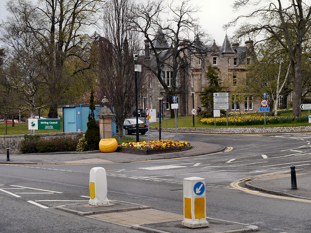 Stirling Council Offices Entrance